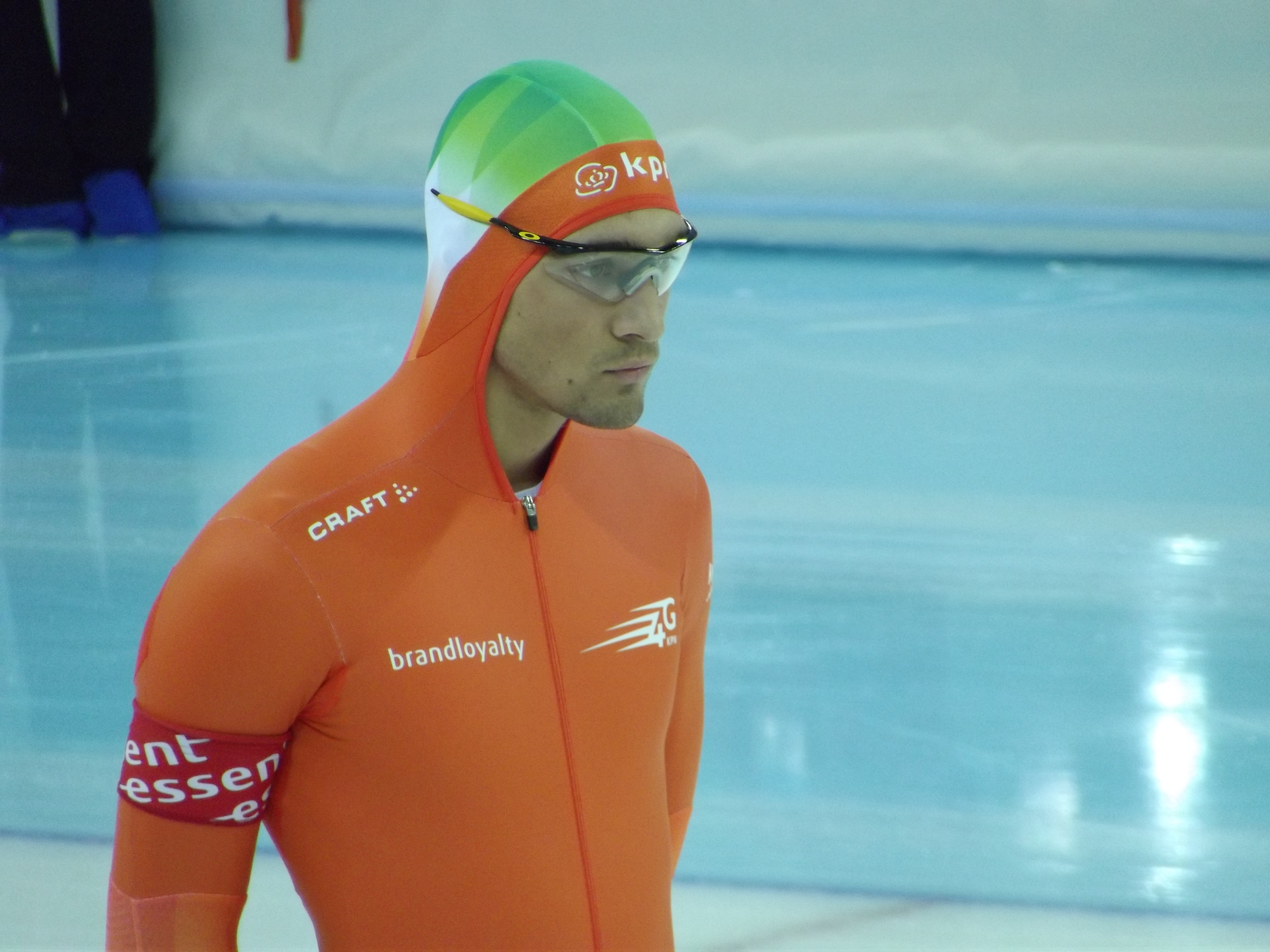 2013 World Single Distance Speed Skating Championships